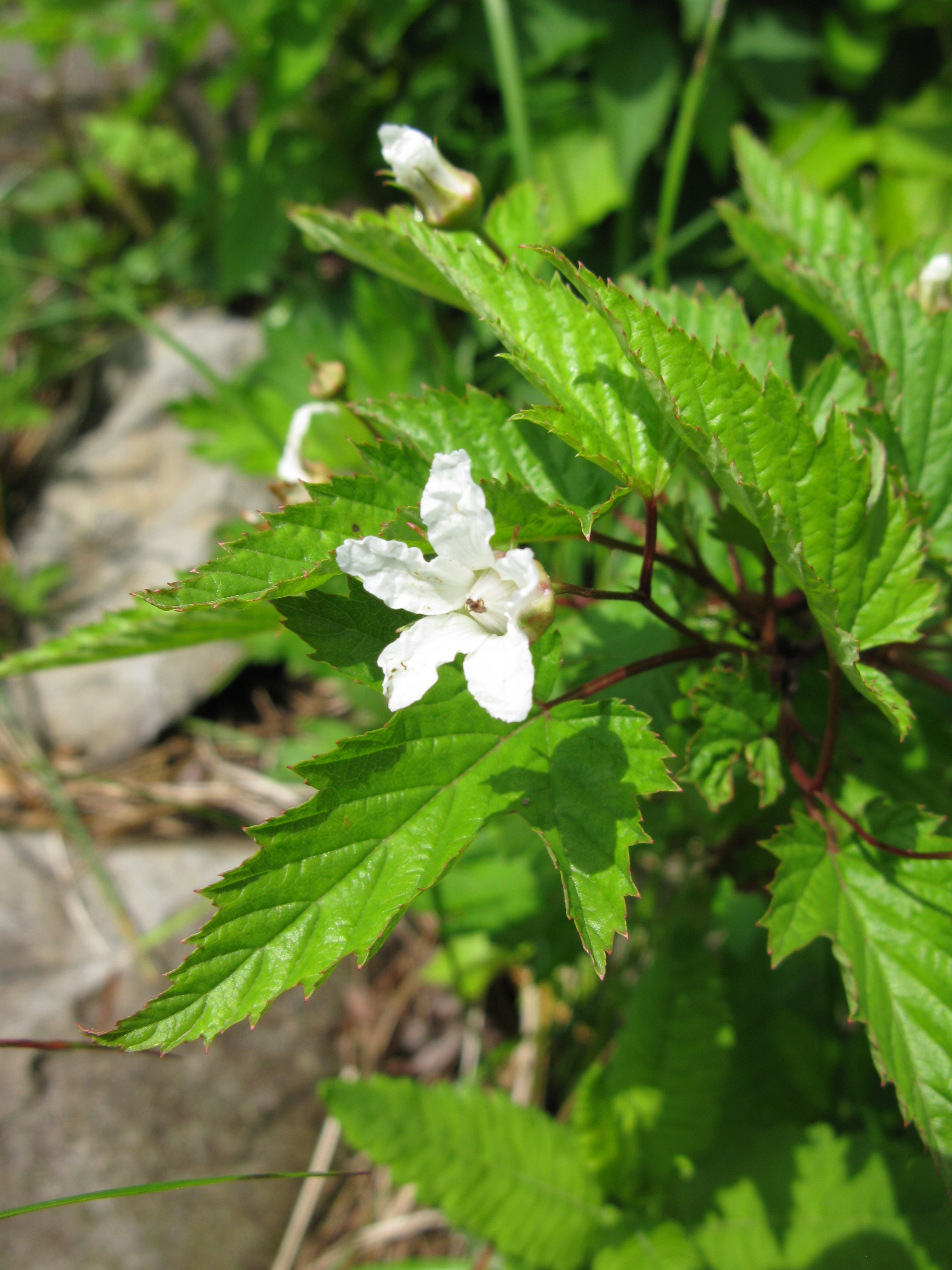 Rubus subcrataegifolius ,Mt. Bandai, Fukushima pref., Japan